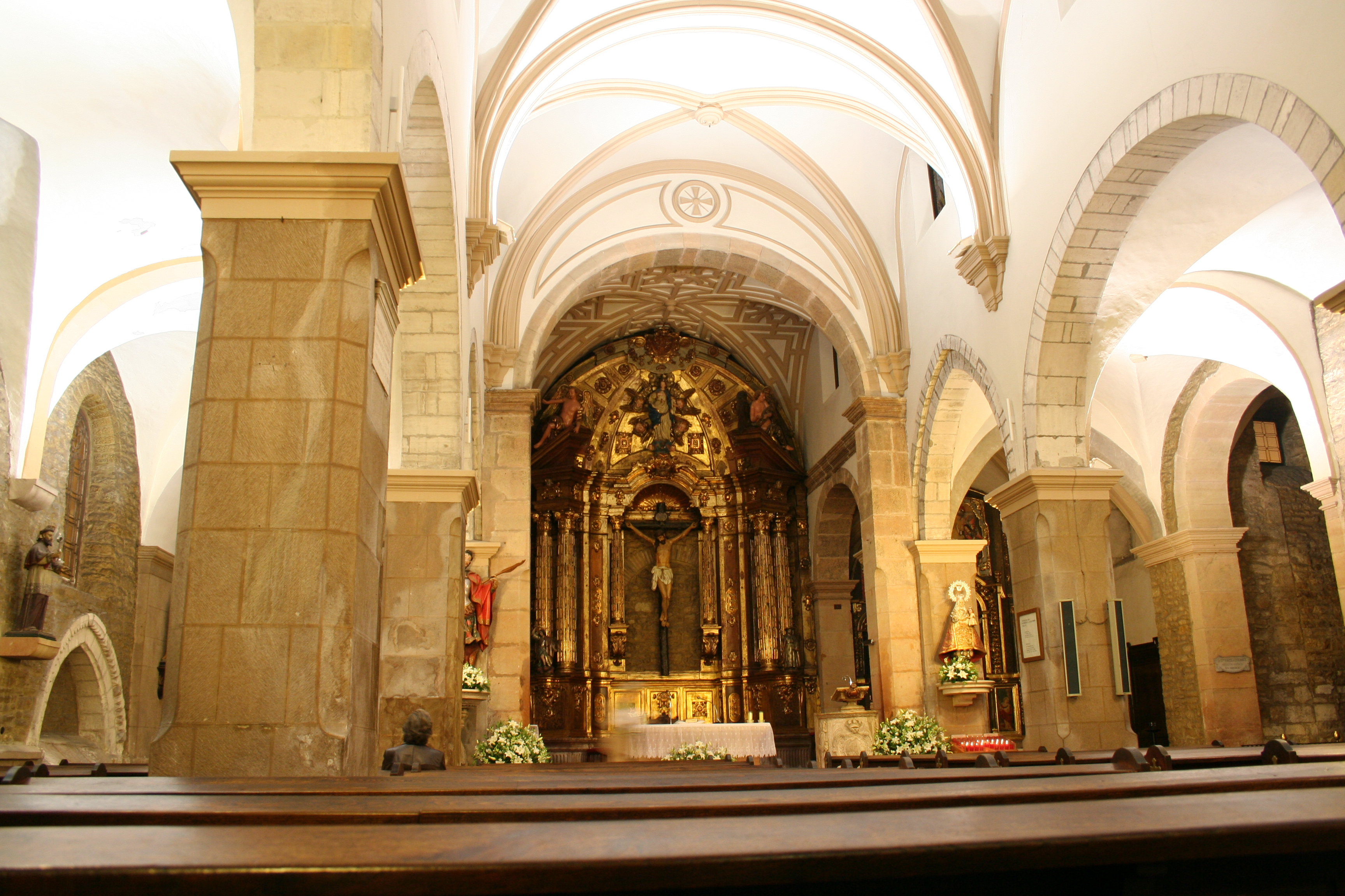 Chapel of the Church of San Tirso, Oviedo.